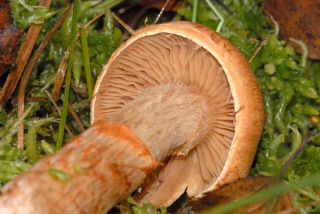 Cortinarius armillatus from Commanster, Belgium. If you think this is a different taxon, please contact James Lindsey.